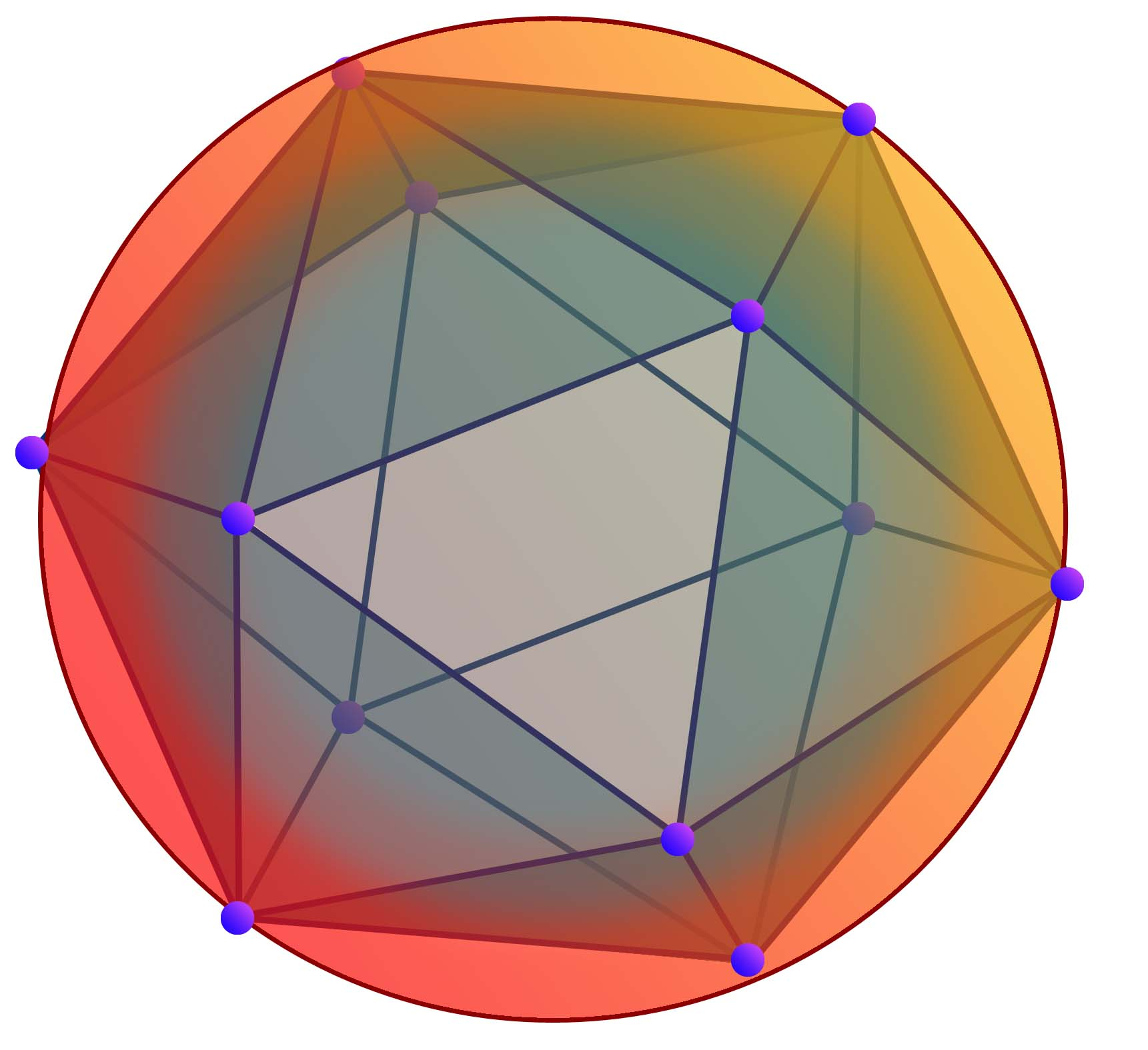 Icosahedron in a sphere